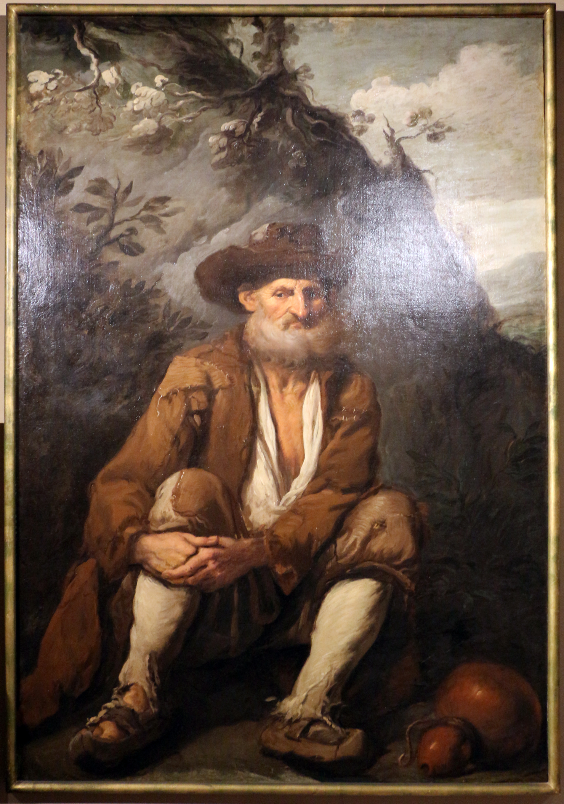 Il Tesoro d'Italia (exhibition at Expo 2015)